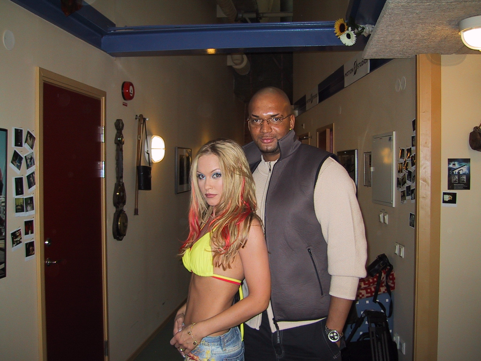 Rollergirl_-_Making_of_video_Close_To_You